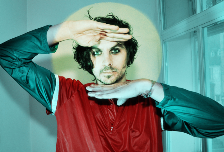 Press picture Eugene Francis Jnr 2012